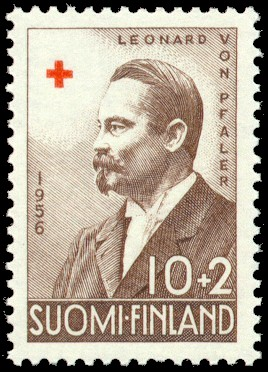 Postage stamp depicting the Finnish statesman and bank director Leonhard von Pfaler